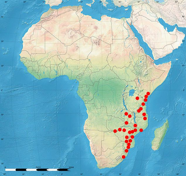 Distribution map of Cordyla africana